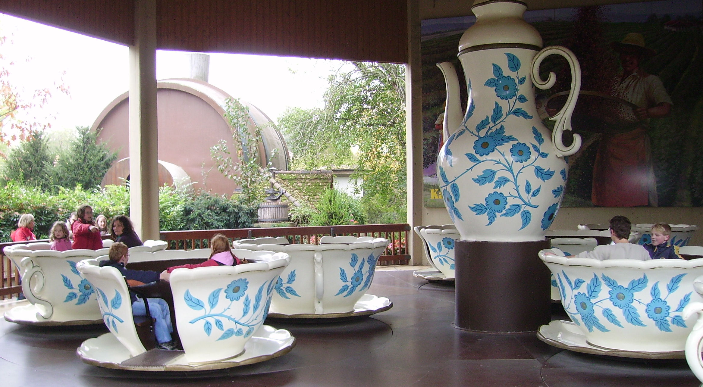 leisure park Tripsdrill near Cleebronn in southern Germany